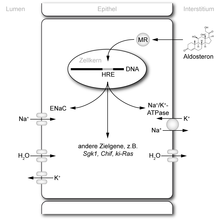 Mechanism of mineralocorticoid action in epithelial cells in the collecting duct. MR activation leads to enhanced reabsorption of sodium and consecutive water retention. MR, mineralocorticoid receptor; HRE, hormone response element; ENaC, (amilorid-sensitive) epithelial soidum channel; Sgk1, serum-glucocorticoid-regulated kinase 1; Chif, Corticosteroid-induced factor; ki-Ras, Kirsten Ras GTP-binding protein-2A